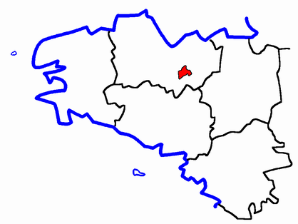 Description: Map for localisazion of cantons of Bretagne region in France Source: made by Hervé Tigier in april 2005 from another large map (published in 1990)